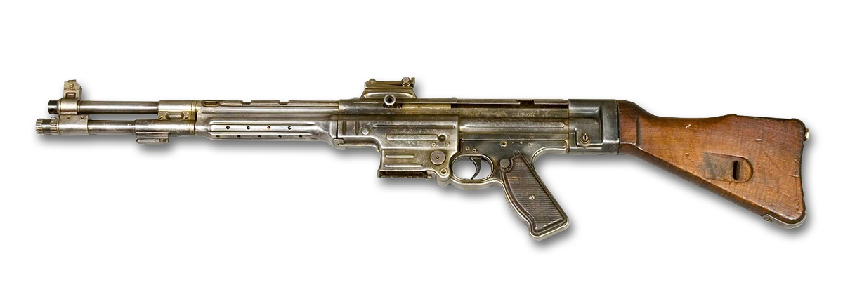 A German Maschinenkarabiner 42(H), also known as the Mkb 42I(H). The Mkb 42(H) is an early German assault rifle that was designed in 1940-41 by Hugo Schmeisser working for C. G. Haenel Waffen und Fahrradfabrik during World War II. The MKb 42(H) along with the less successful Maschinenkarabiner 42(W) designed by Walther Waffenfabrik AG, were predecessors of the later Sturmgewehr 44 or StG 44 assault rifle. The specimen in the photo has serial number 349 and is part of the Swedish Army Museum collections.